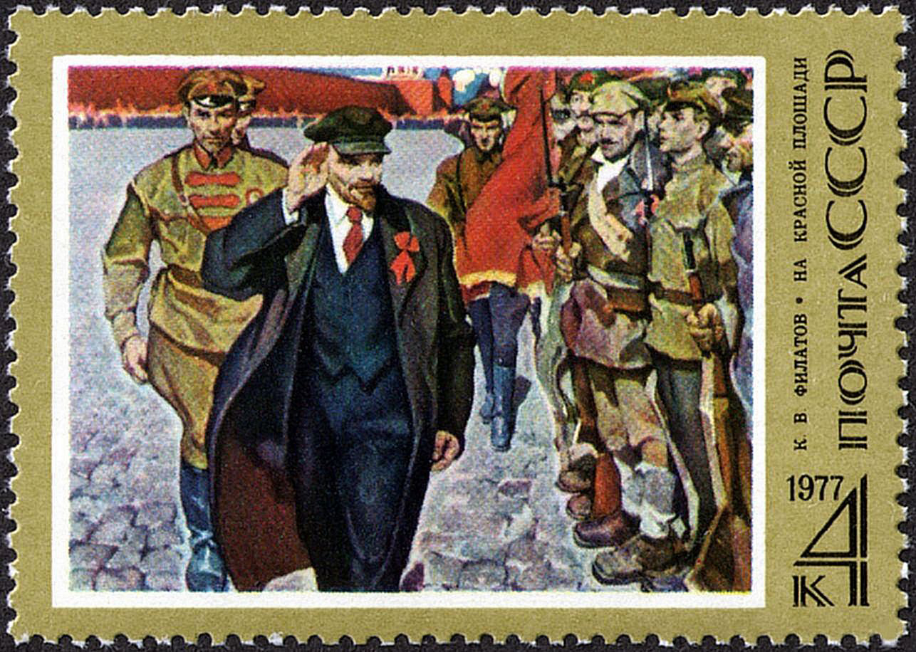 107th birth anniversary of the founder of the Communist party and the Soviet state Vladimir Lenin.In the Red Square by Konstantin Filatov[1]. Oil on canvas. 1964–1965. National Art Museum of UkraineThe stamp of the Soviet Union, 4 kopecks, 6 April 1977, CPA Catalogue No 4691, Michel No 4587, Scott No 4560, Yvert No 4361. Coated paper. Offset printing, varnish coating. Perforation: comb 12½×12. Size of the stamp: 52×37 mm. Print run: 7,700,000.